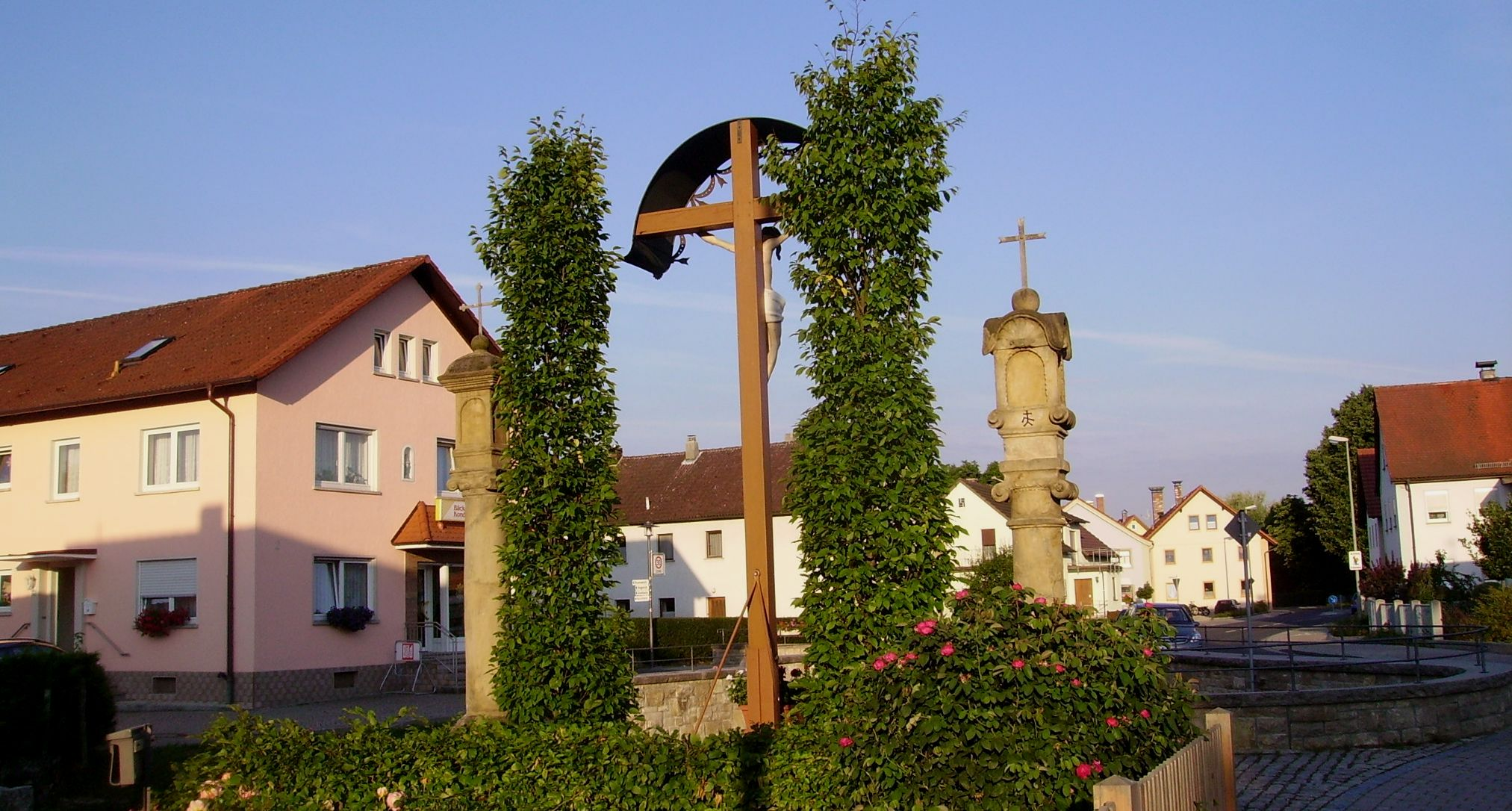 village in Germany